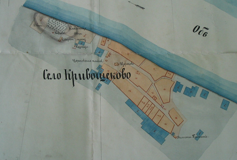 Map of Krivoshchyokovo compiled by Khrebtov in 1893.